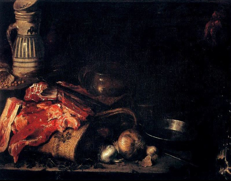 Still Life with meat